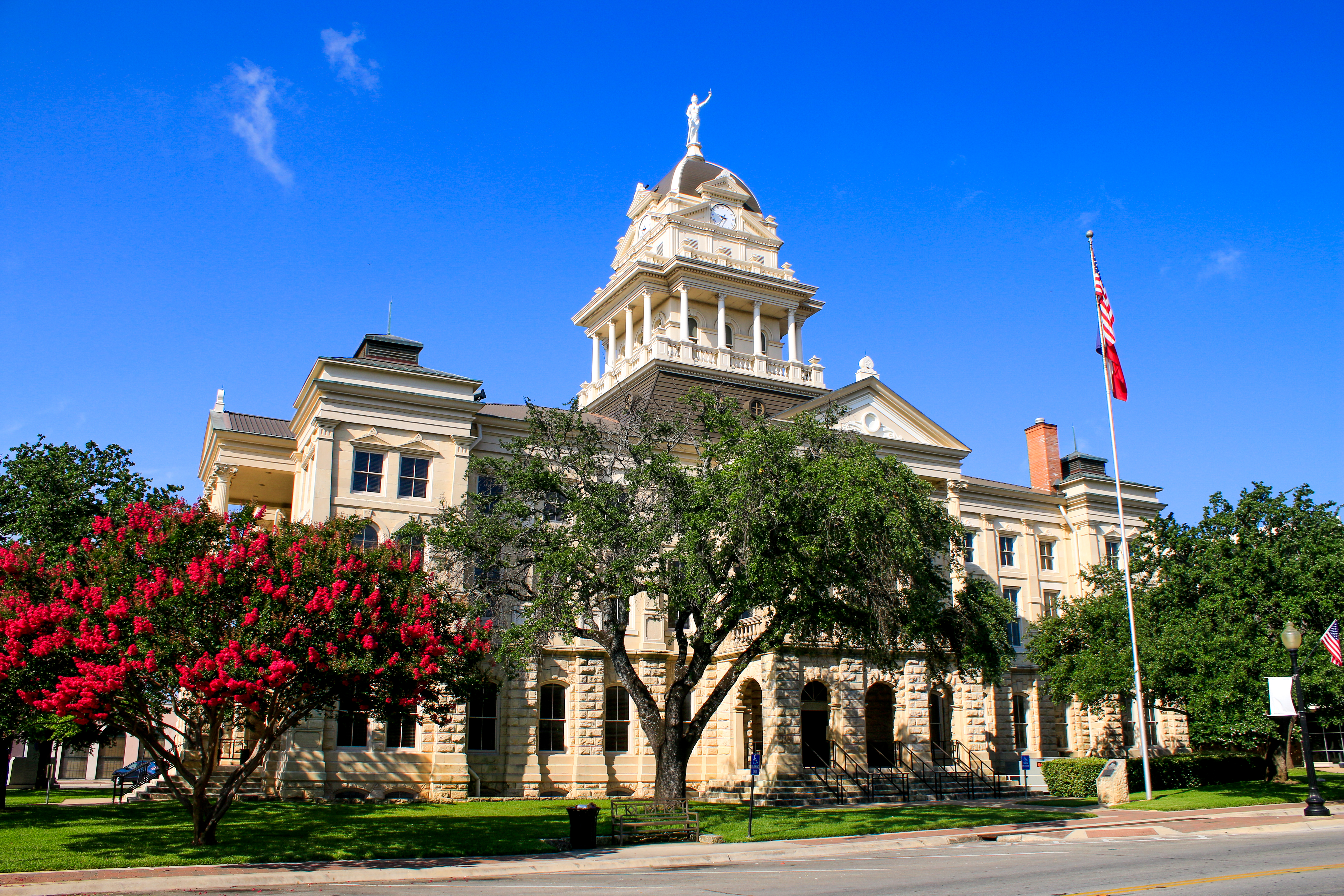 Bell County Courthouse in Belton, Texas